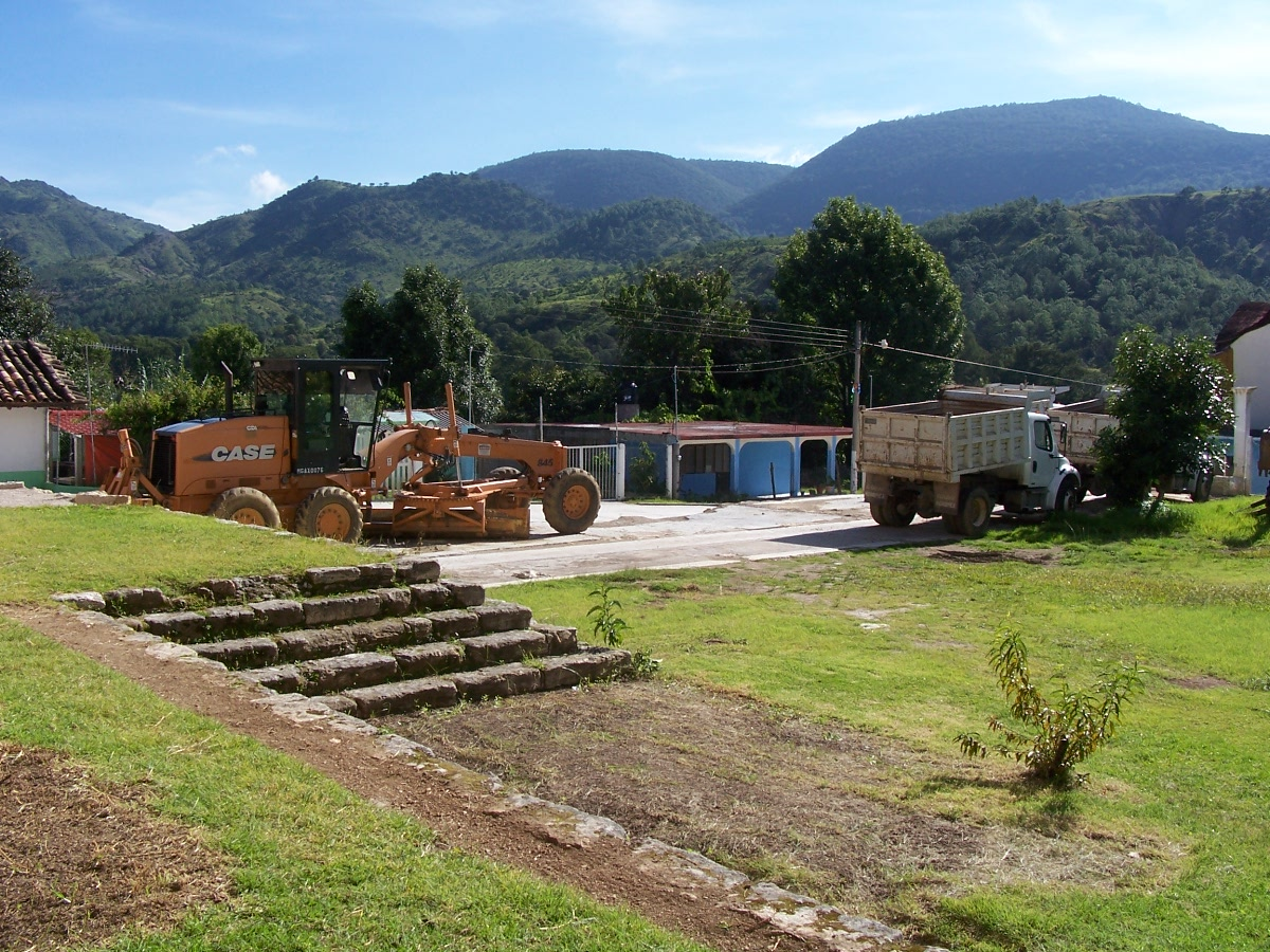 Picture from the same angle taked in 2011, place was ocupied by the ancient classrooms in San Juan Achiutla.